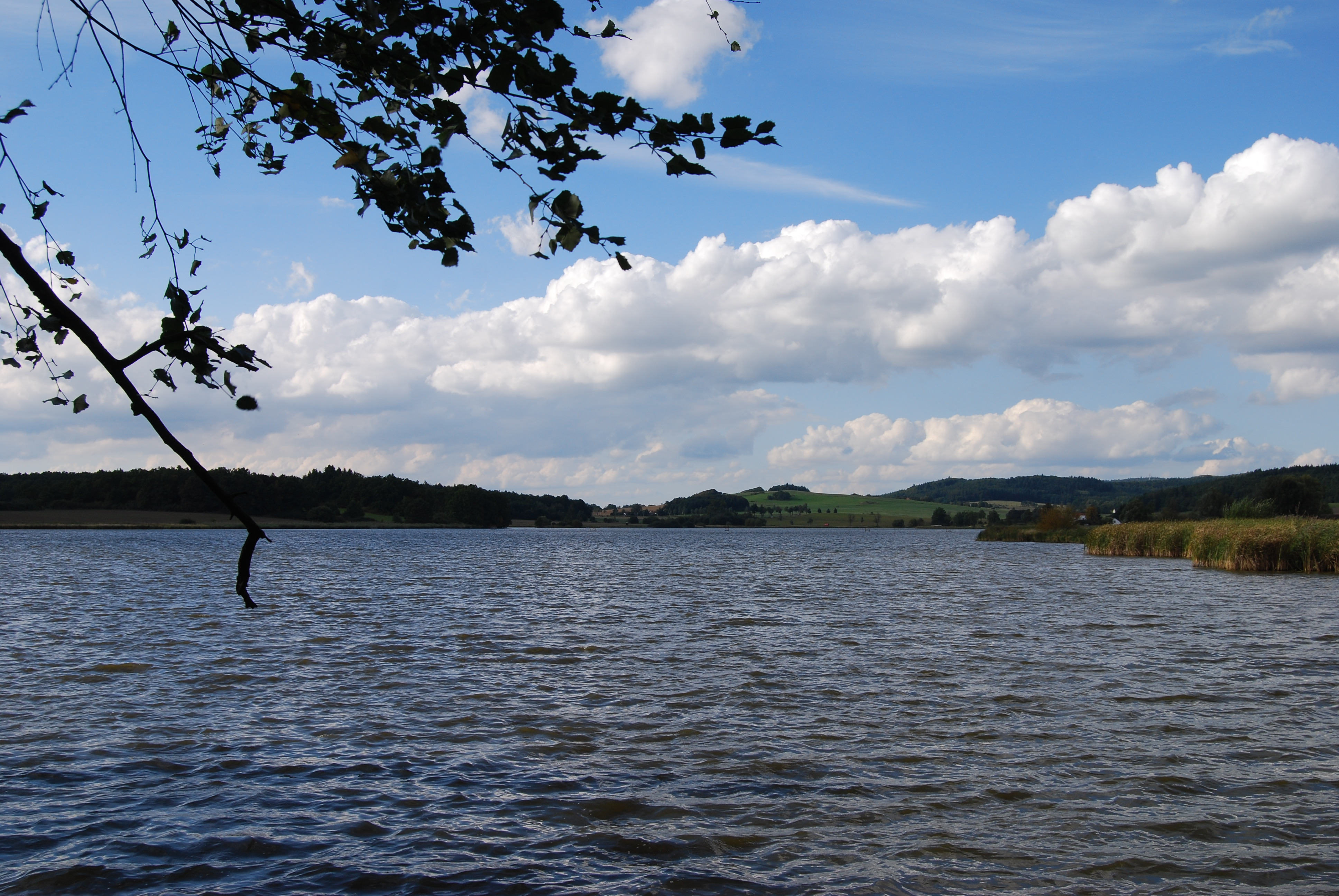 Tálínský pond near Tálín village in Písek District, Czech Republic